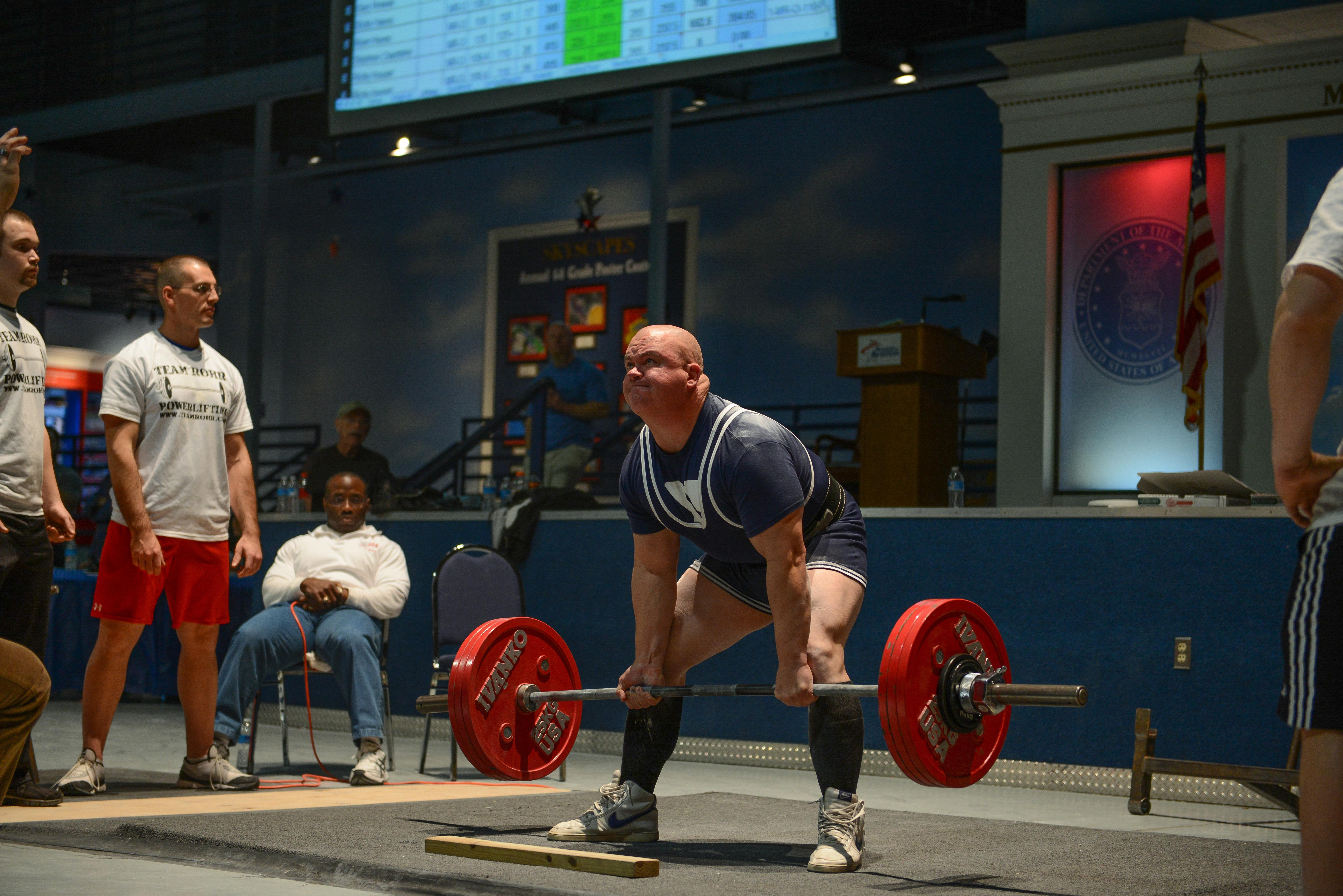 U.S. Air Force Tech. Sgt. Michael Lloyd performs a deadlift Jan. 25, 2014, at the Museum of Aviation in Warner Robins, Ga. Lloyd broke four U.S.A. Powerlifting Georgia state records at the 2014 Winter Classic and Single Ply Invitational. He set a record for squat, bench press, three event total (squat, bench press, deadlift), and bench press only for the Masters Division in his weight class at his first powerlifting competition. Lloyd is assigned to the 165th Airlift Wing, Georgia Air National Guard. (U.S. Air National Guard photo by Master Sgt. Charles Delano/Released)